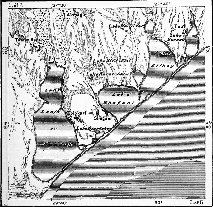 Sasic (Conduc), Şagani, Alibei and Burnaz lakes